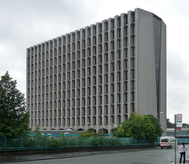 A picture of the Hexagon Building in Manchester